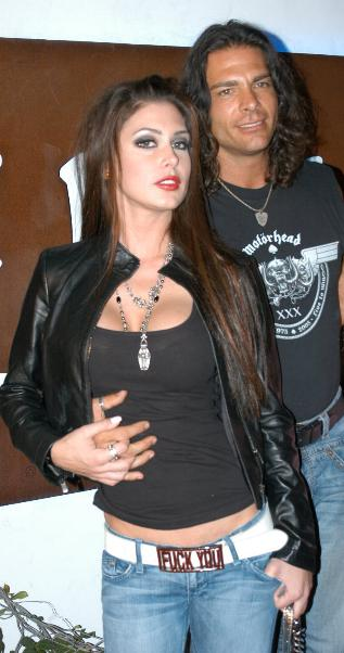 Nov 6 2006: Starlets Britney Skye and Tera Patrick will host a party Monday night at Joseph’s Café (1775 Ivar St.) in Hollywood. The event will celebrate the release of Teravision’s latest title, Sexxxpose’ Britney Skye.